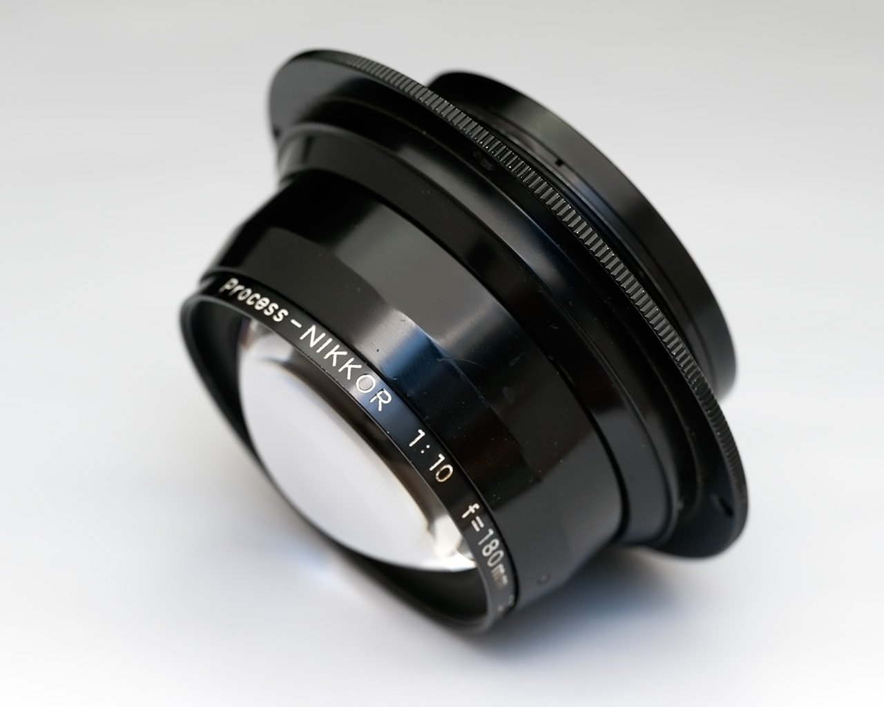 Nikon Process-NIKKOR 180mm f/10